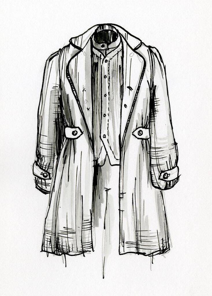 The description of the concept in this drawing is: Men's and boy's coats with a close-fitting body and a rather full knee-length skirt. (AAT)